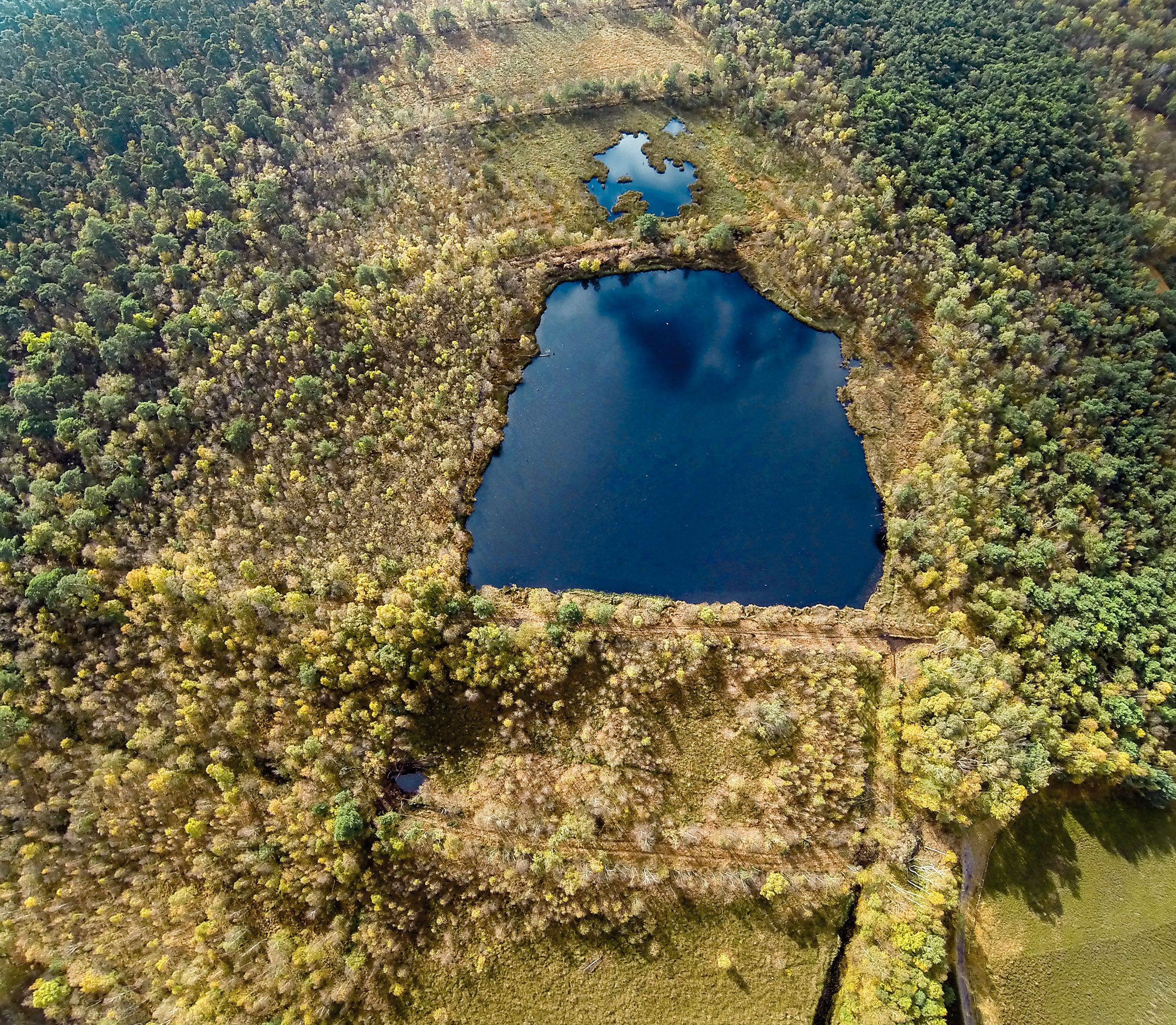 "Venner Moor" nature reserve in Senden, Kreis Coesfeld, North Rhine-Westphalia, Germany